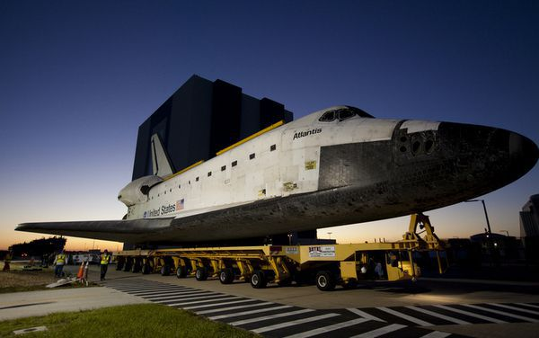 "Space Shuttle Atlantis Rolls Slowly to Its New Home"